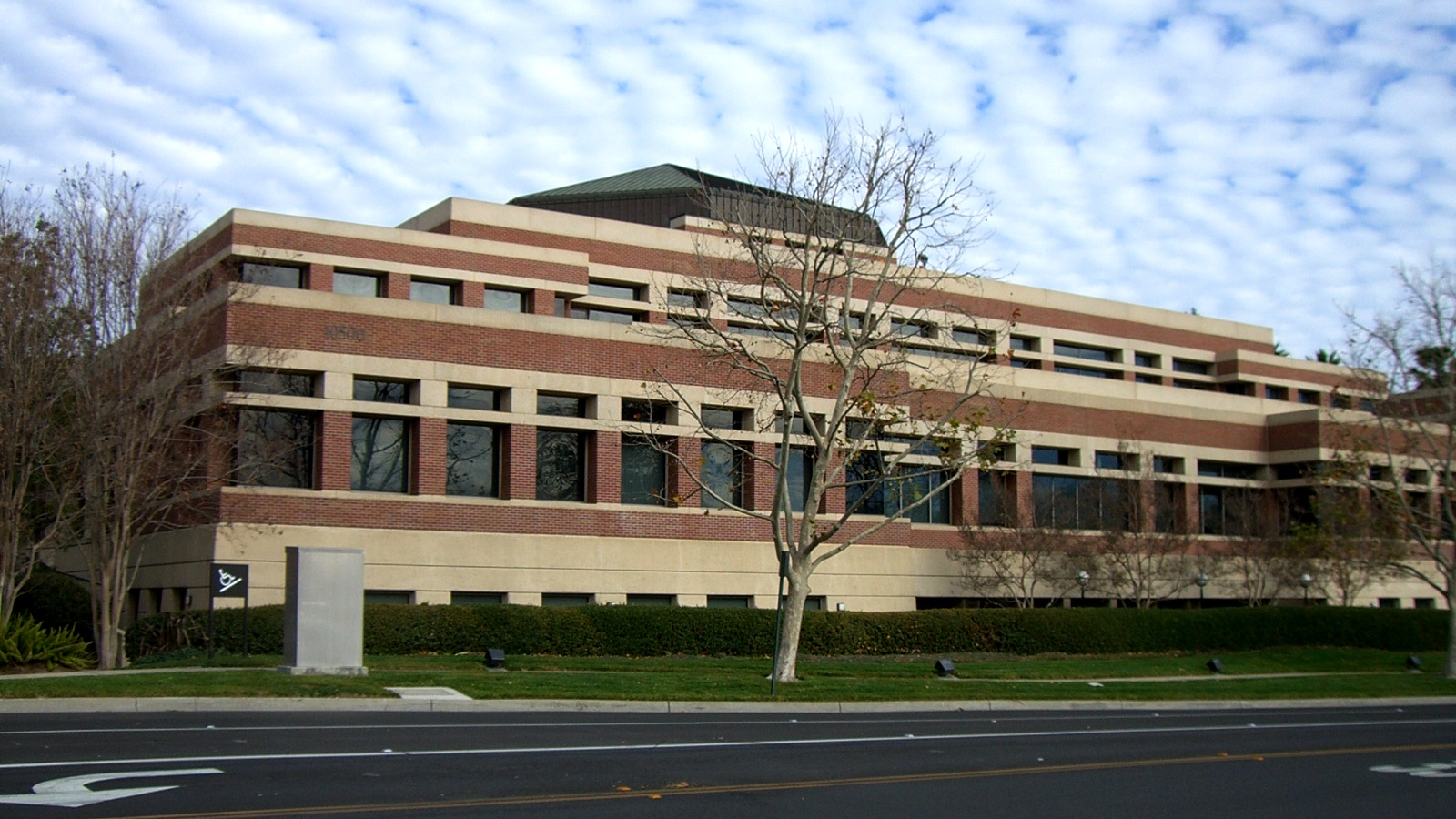 City Hall of Rancho Cucamonga.